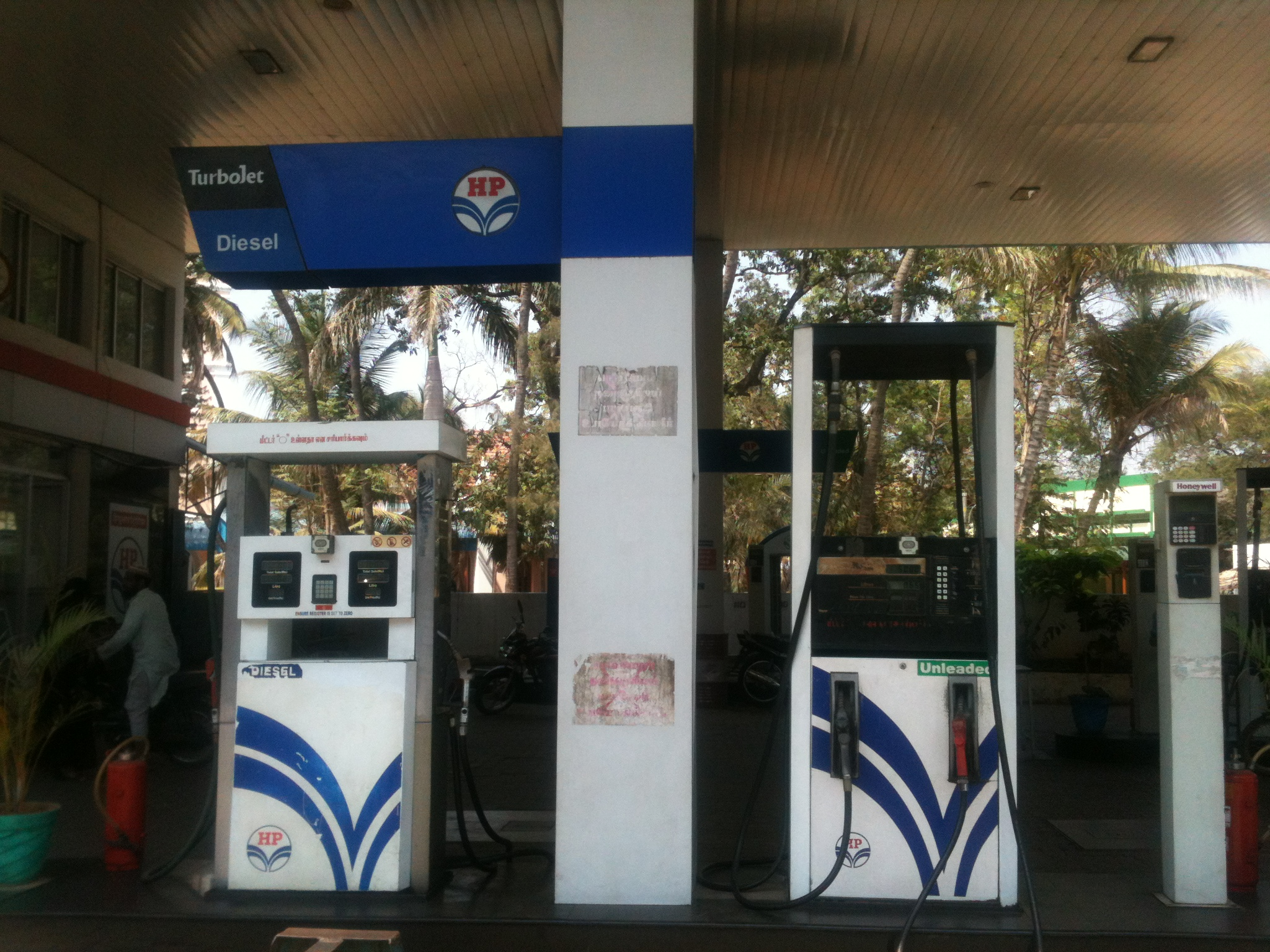 Hindustan Petroleum Fuel Pump in Townhall, Coimbatore